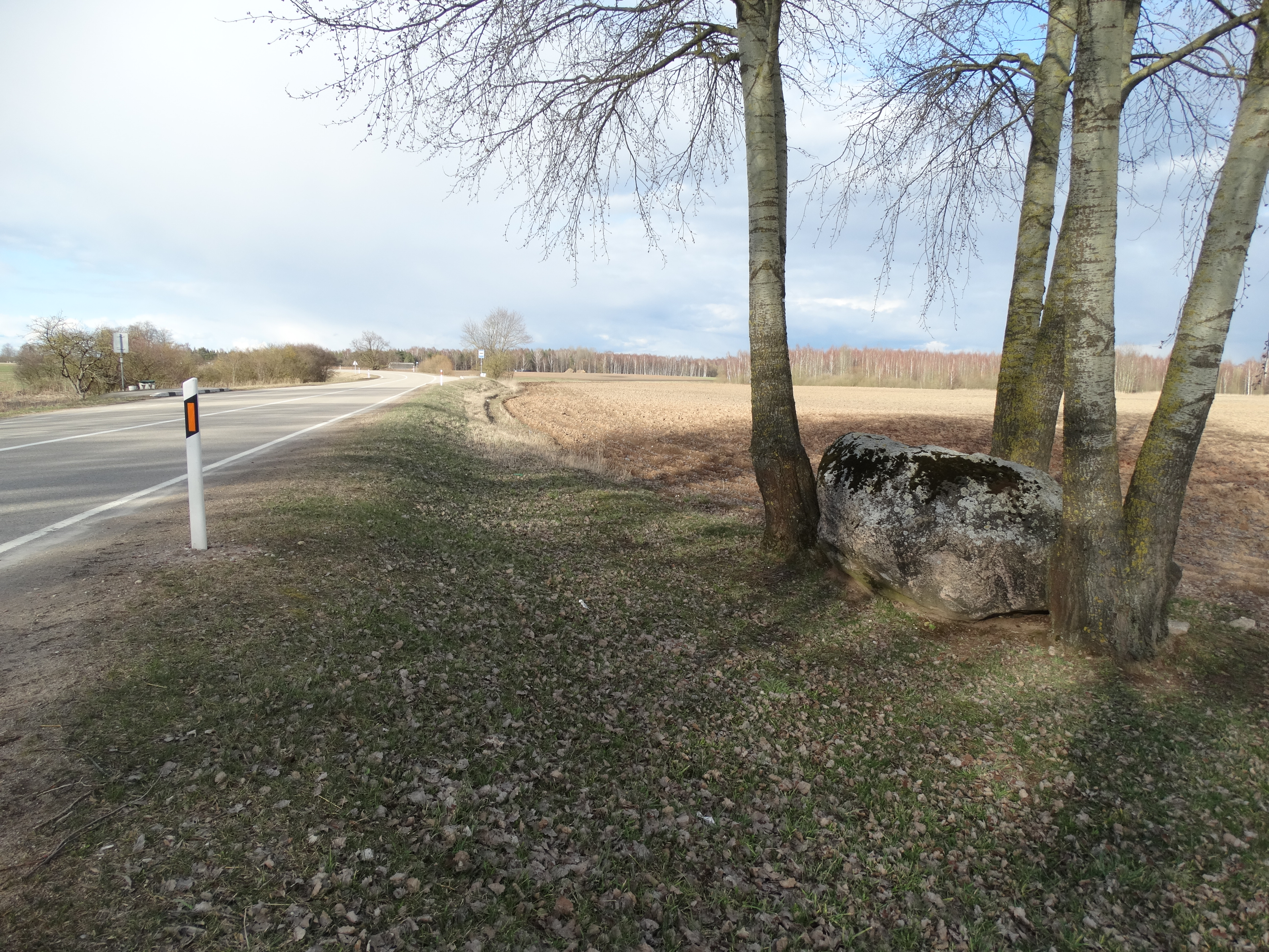 Stone, Normainiai I, Jonava district, Lithuania